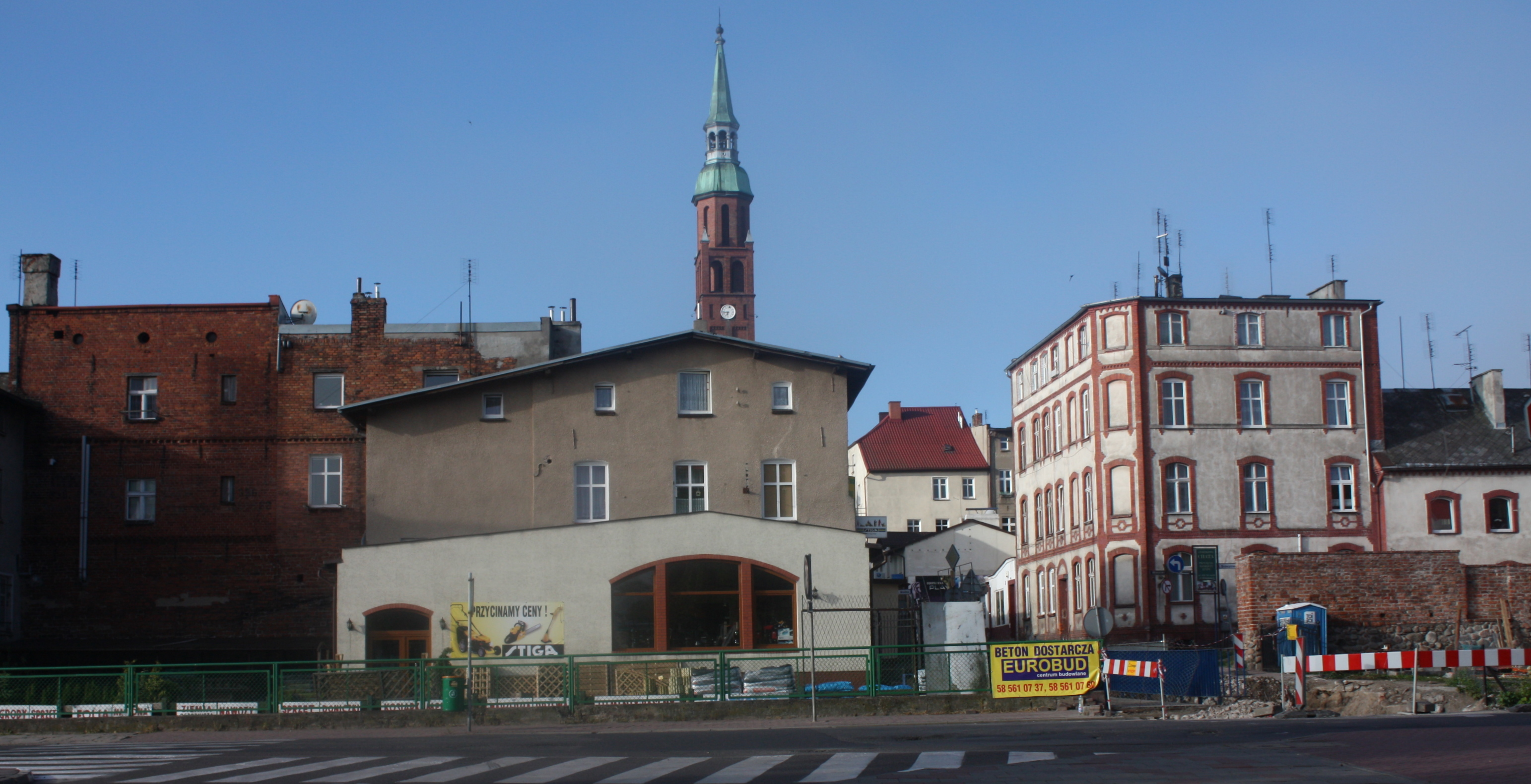 Starogard Gdański, Downtown